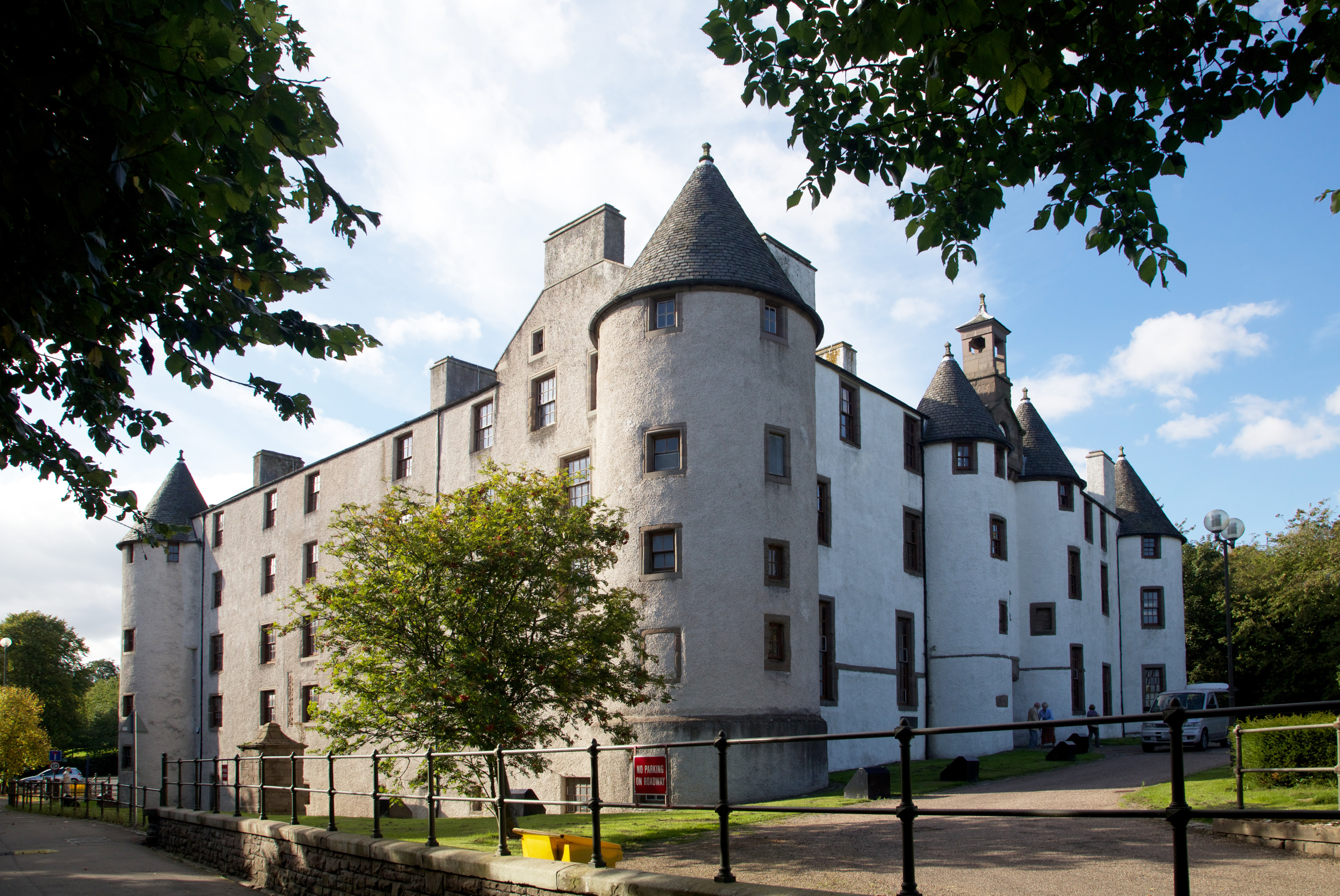 Dudhope Castle Wikidata has entry Q5311750 with data related to this item.